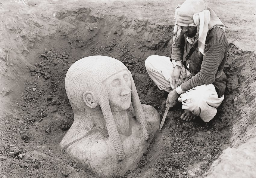 The ruins at Tell Halaf: This monumental figure was discovered in March 1912.